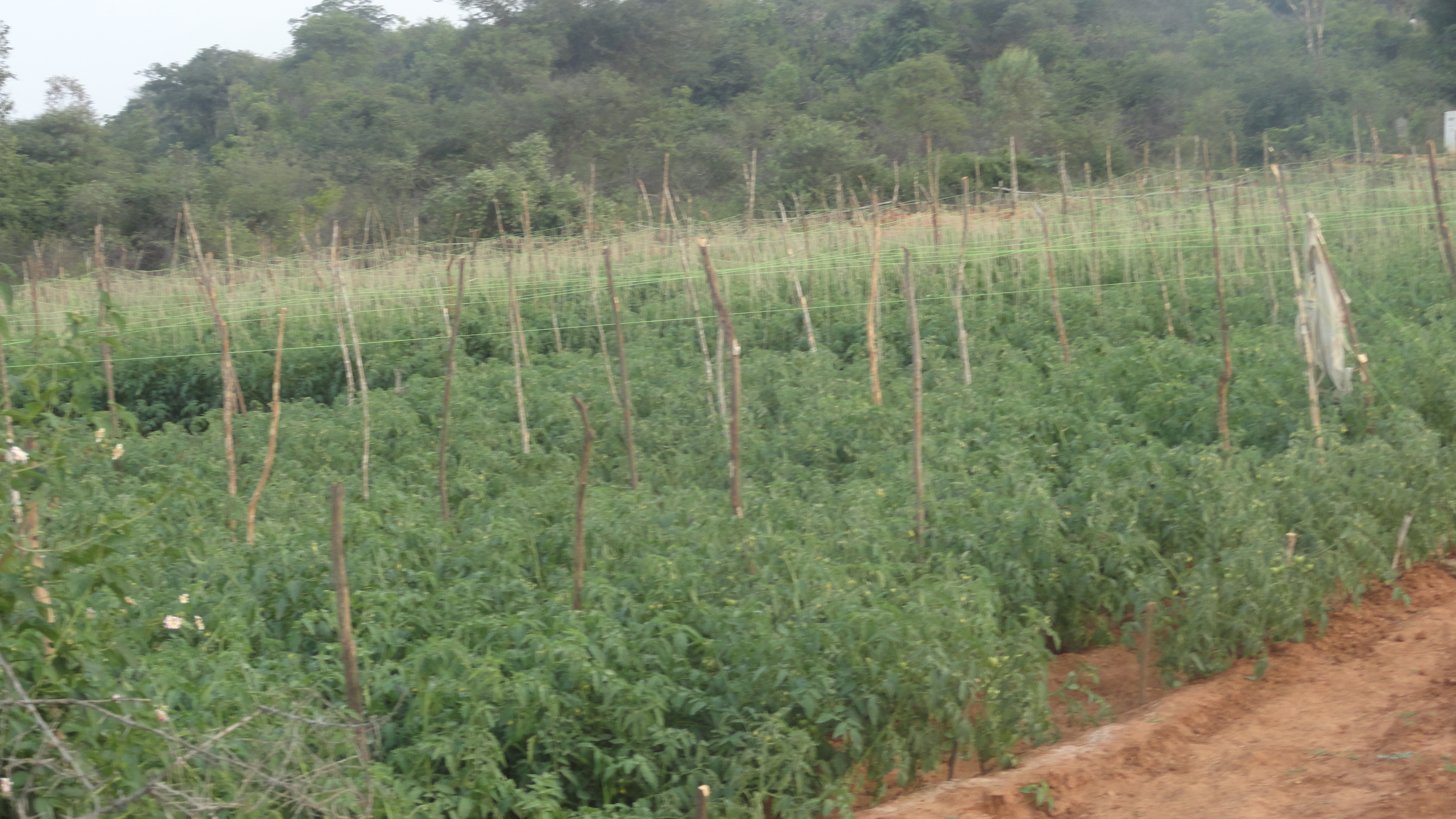 Agriculture in Andhra pradesh